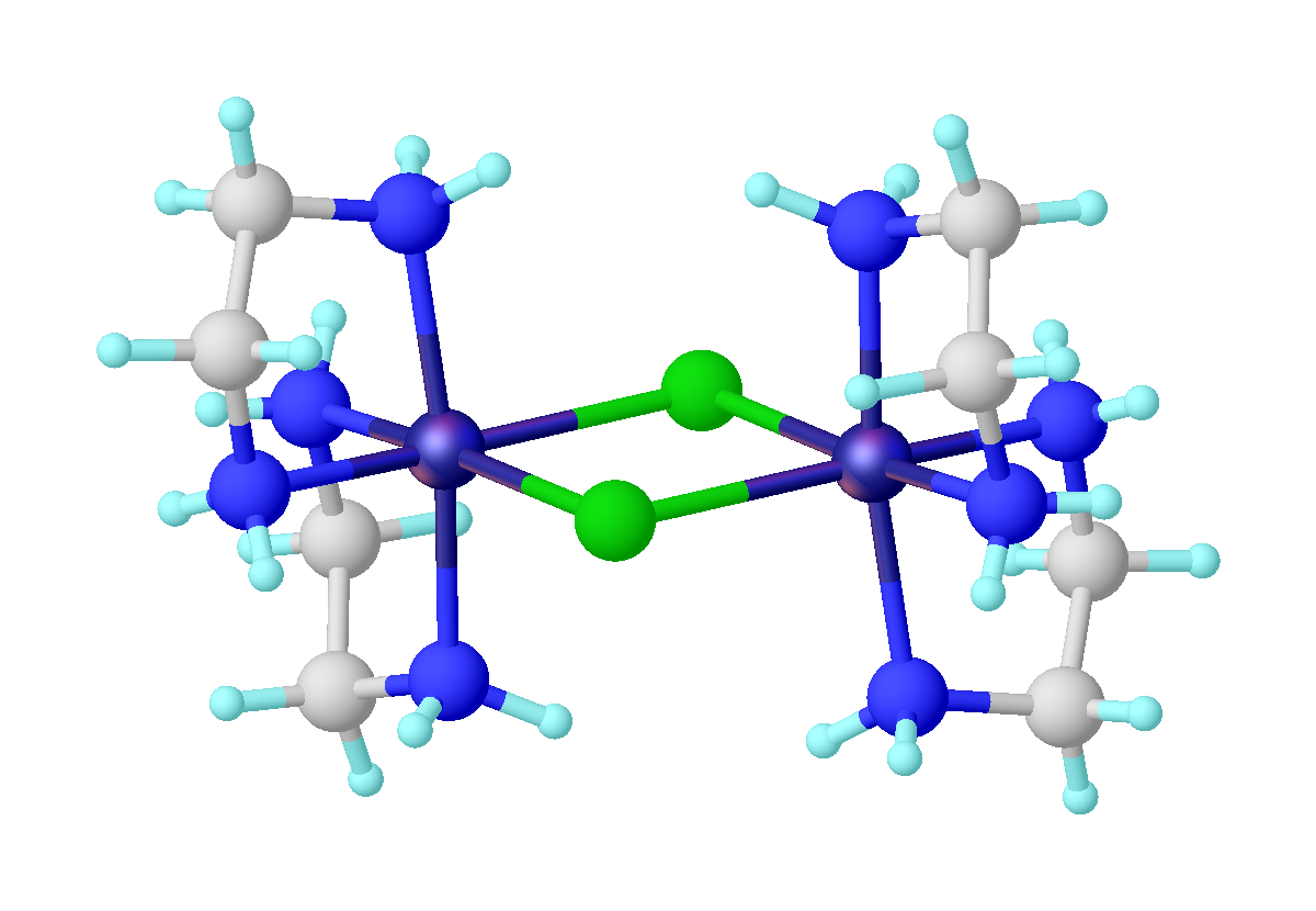 Structure of the dication [Ni2Cl2(en)4]Cl2.